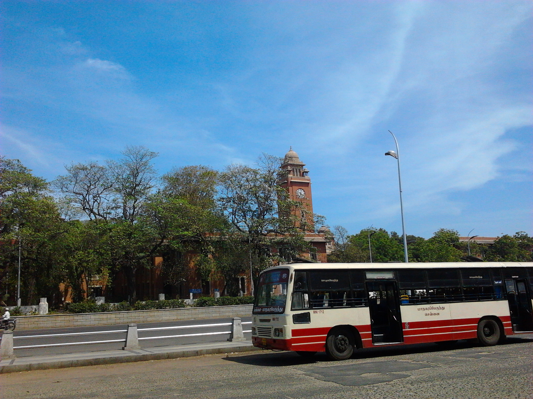 Chennai Metropolitan Transport Corporation's deluxe bus from Ashok Leyland parked at the Anna Square Bus stand.